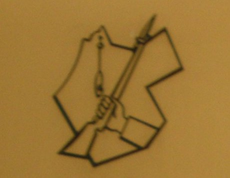 Logo of Irgoun. Detail of a photograph of plaque next to location of the Etzel (אצ"ל) headquarters, Suzanne Dellal center, Neve Tzedek, Tel Aviv, Israel.